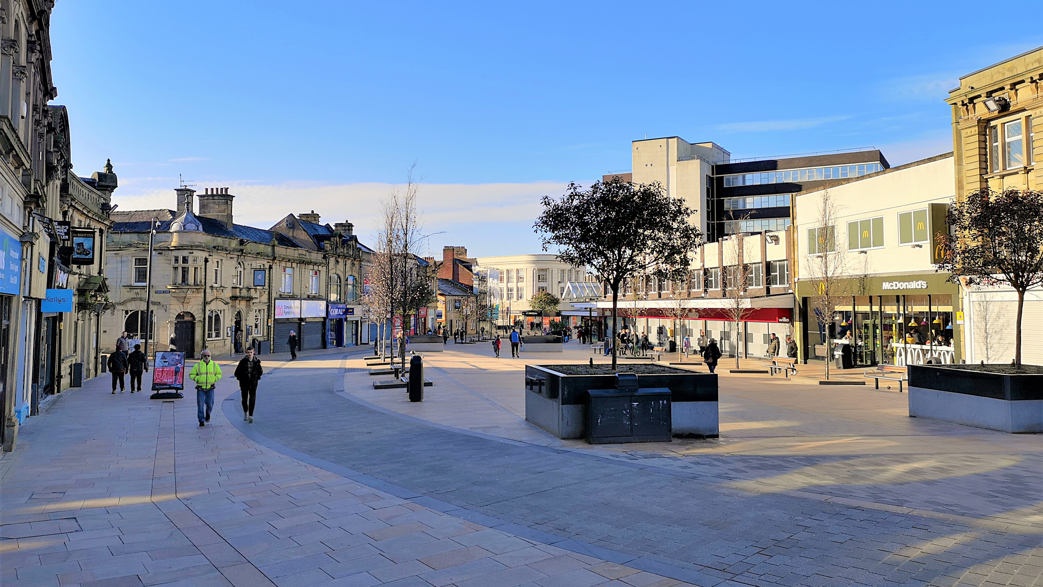 St James's Street in Burnley, Lancashire. Formerly the main road trough the town centre, the area was pedestrianised in the 1990s and refurbished in late 2017.